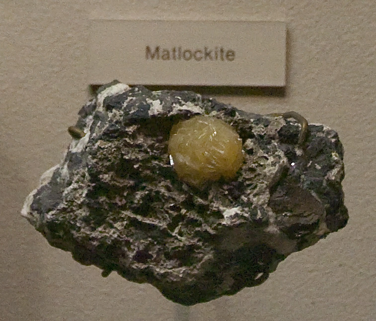 Matlockite on display at the New York Museum of Natural History. The Matlockite is the smaller yellow mineral embedded in the rock.